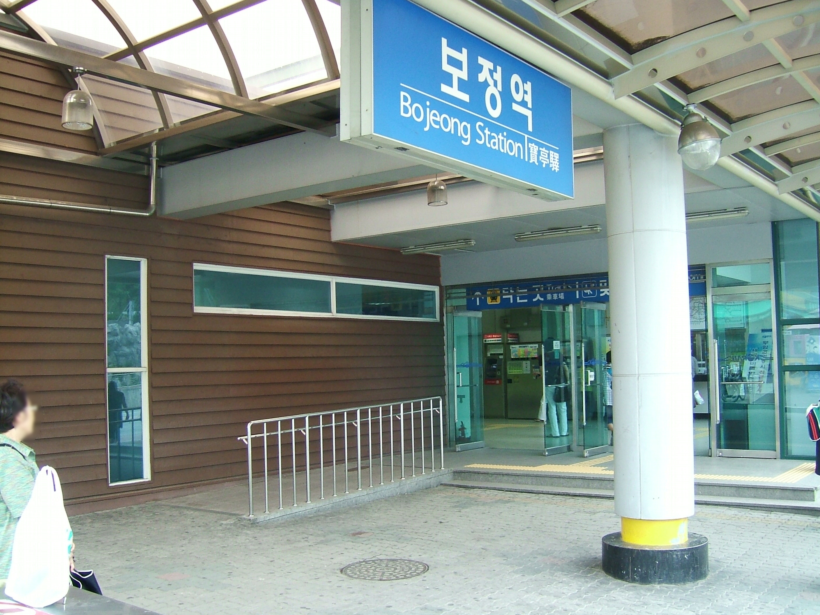 The entrance of Bojeong Station